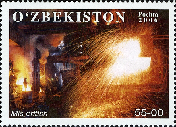 Stamps of Uzbekistan, 2006